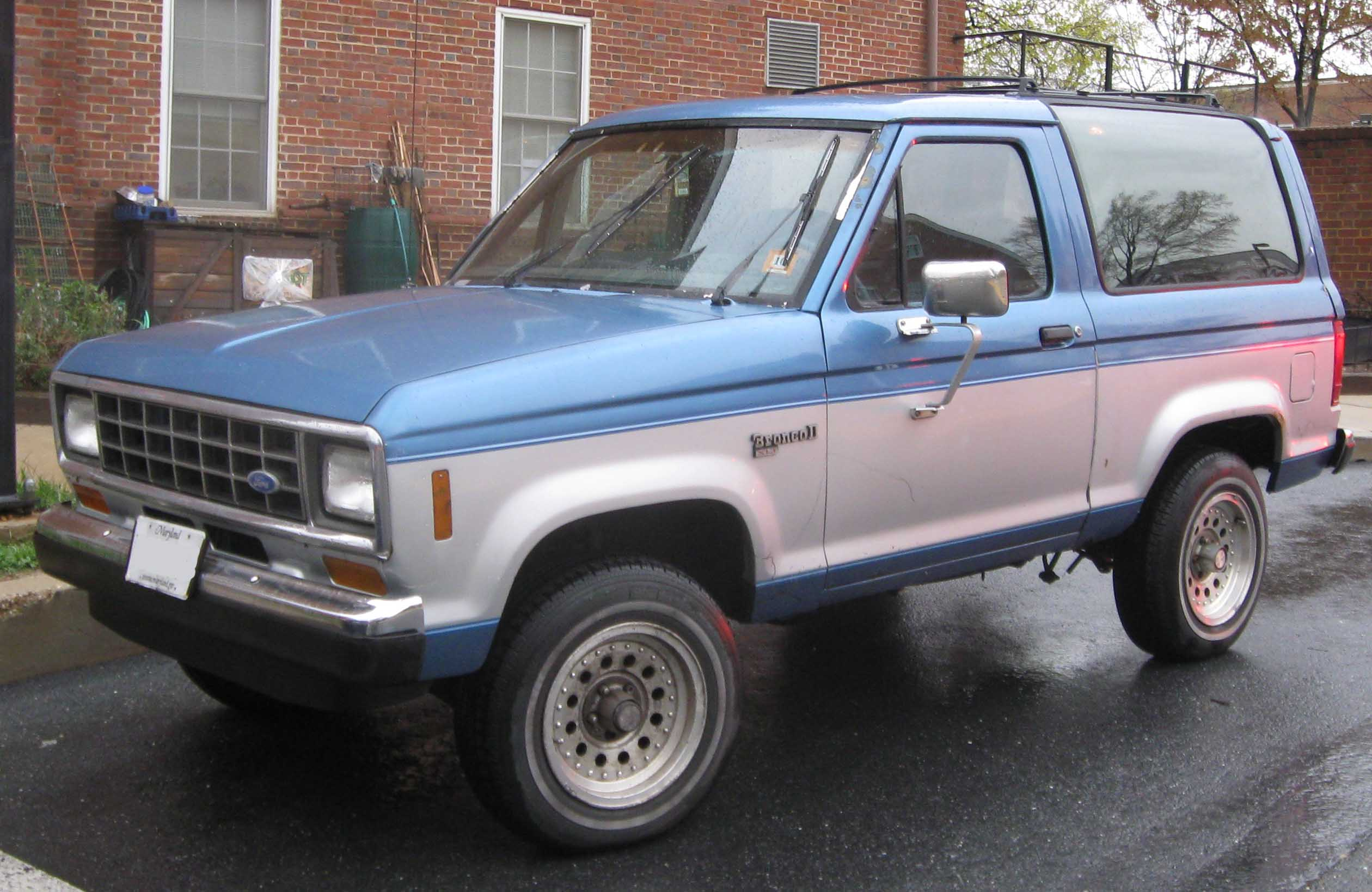 1984-1988 Ford Bronco II photographed in College Park, Maryland, USA.